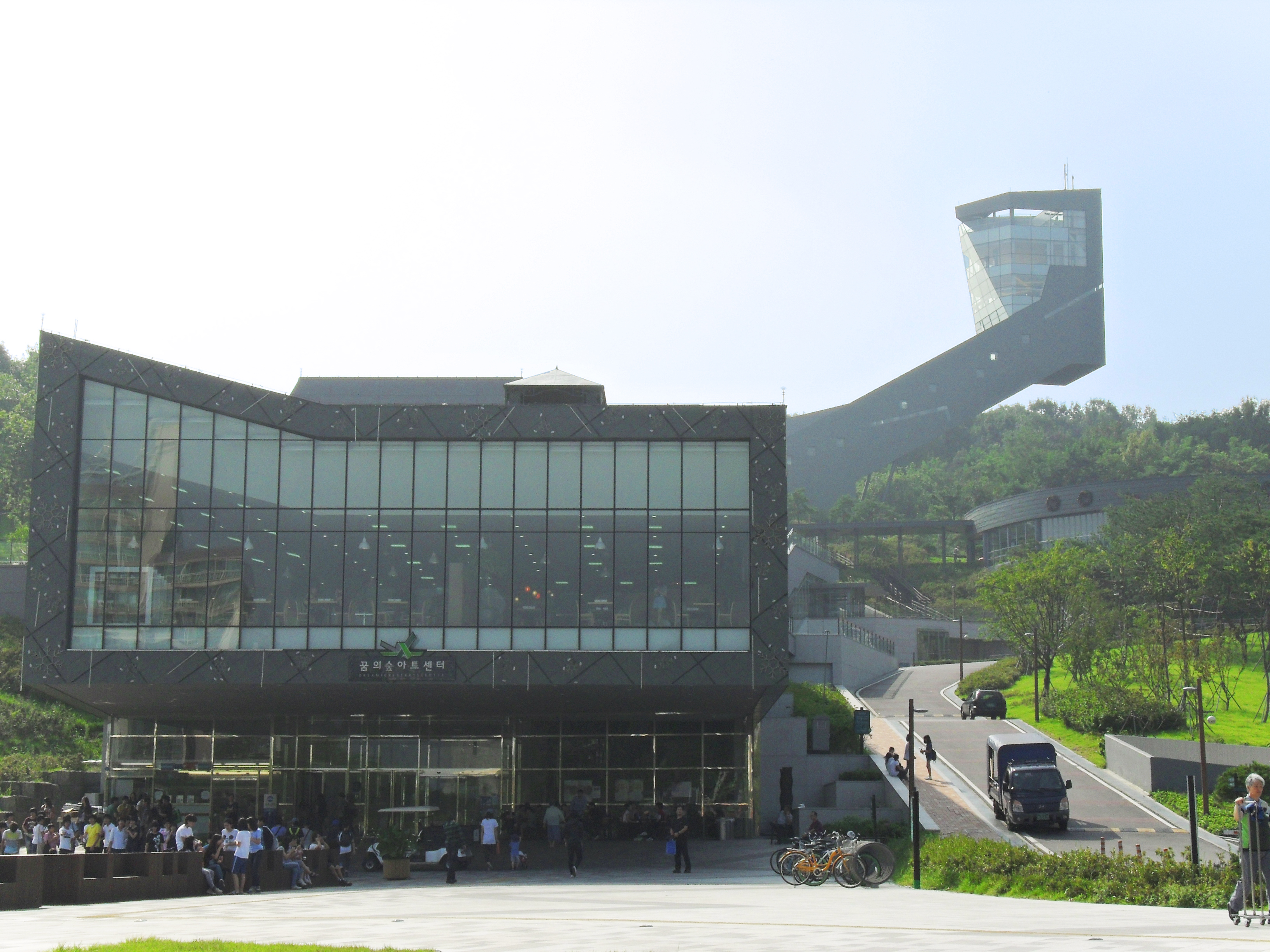 Art Center, Observatory of North Seoul Dream Forest in Seoul, Korea.